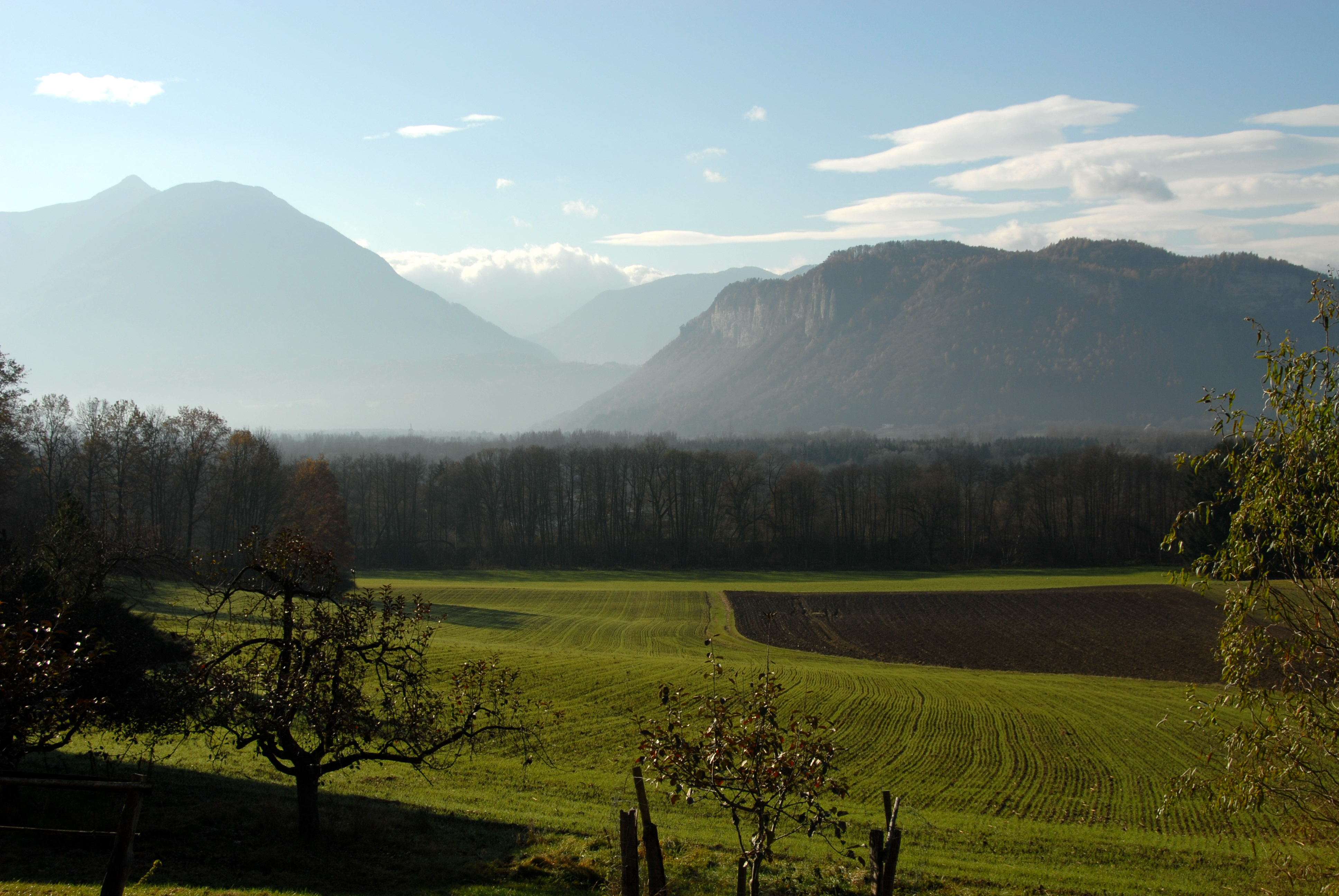 View at the Hochobir and the Skarbin from Lind in the community Grafenstein, Carinthia, Austria